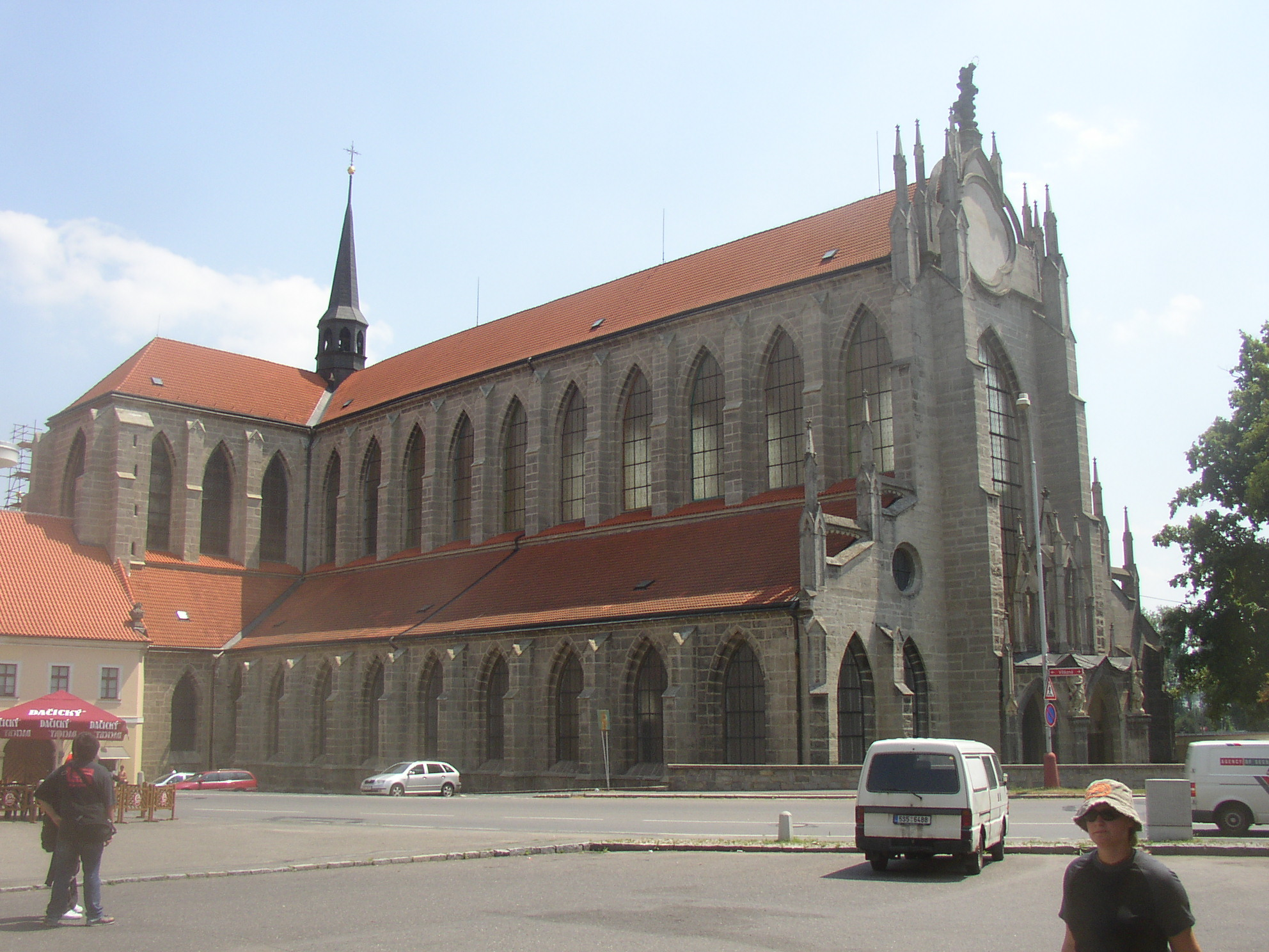 Cathedral of Assumption of Virgin Mary in Sedlec (part of Kutná Hora), Czech Republic.